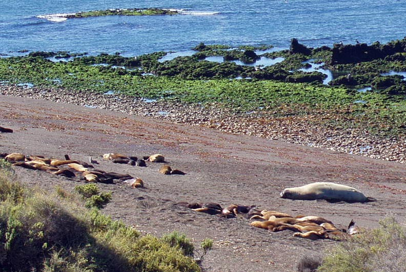 Sea Elephants at the Peninsula Valdes National Park, Chubut, Argentina. Picture taken by me in 2004.